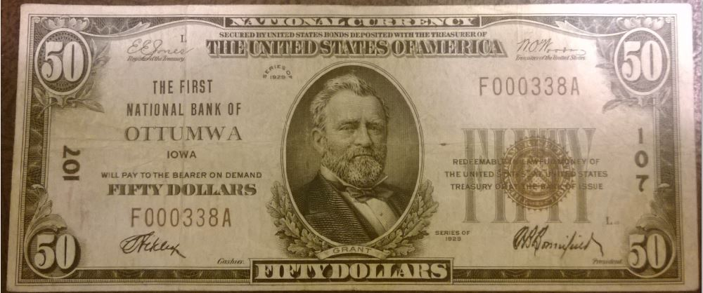 First National Bank Ottumwa Note